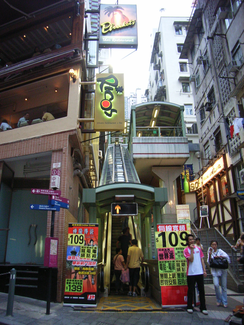 中環至半山自動扶梯系統的 "伊利近街" 入口 HK Mid-Levels Escalators photo by zh FongCYu